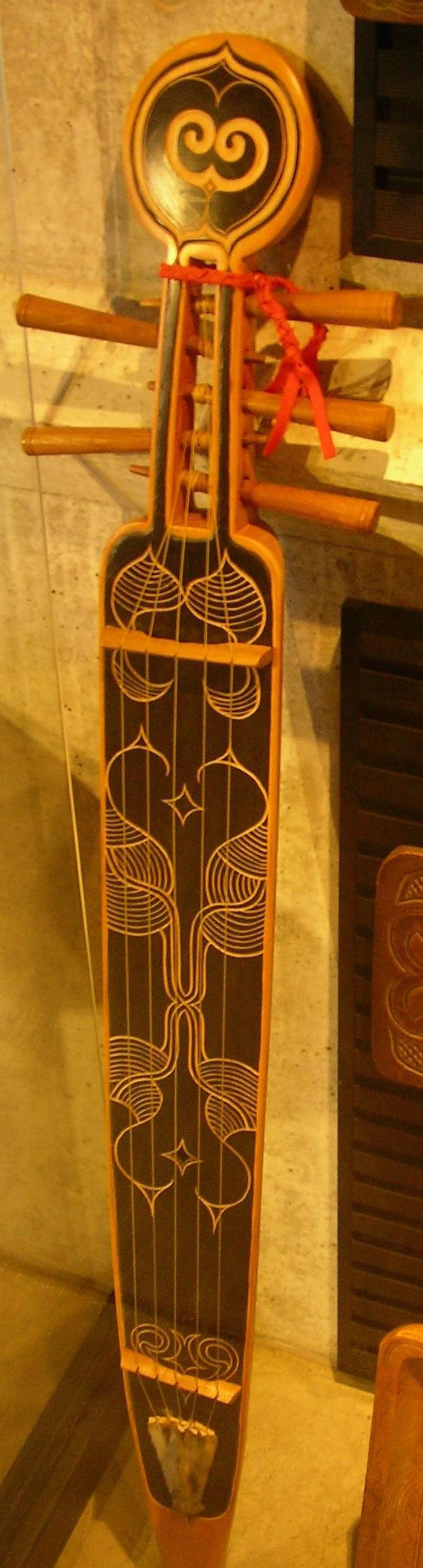 Photo of a tonkori in the Nibutani Ainu Culture Museum in Nibutani, Hokkaido, Japan